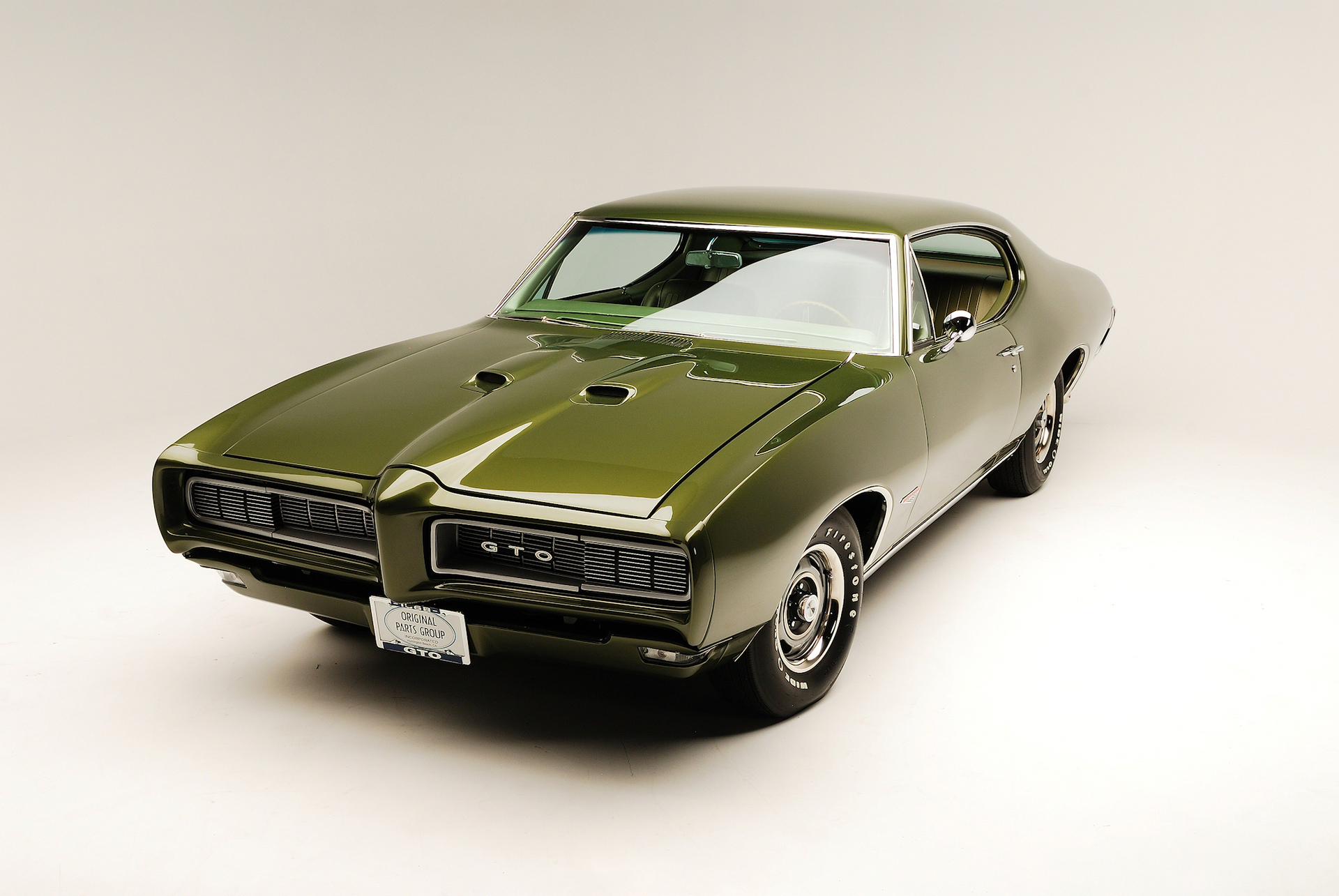 This is one of a series of studio images that I have taken of the 2008 SEMA Show award-winning (best GM restoration)Original Parts Group 1968 Pontiac GTO.